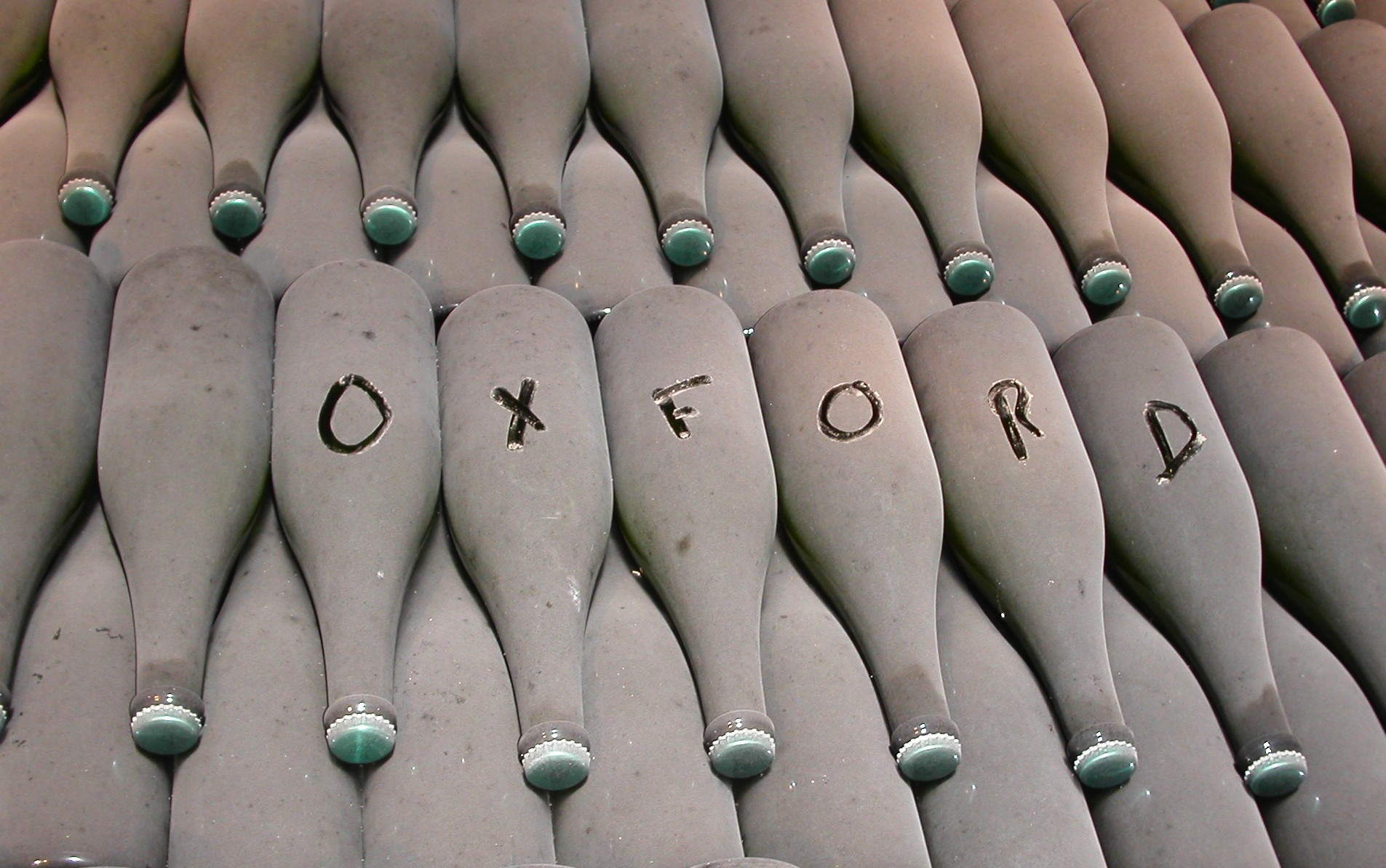 Oxford Winning team - wine cellar Pol Roger